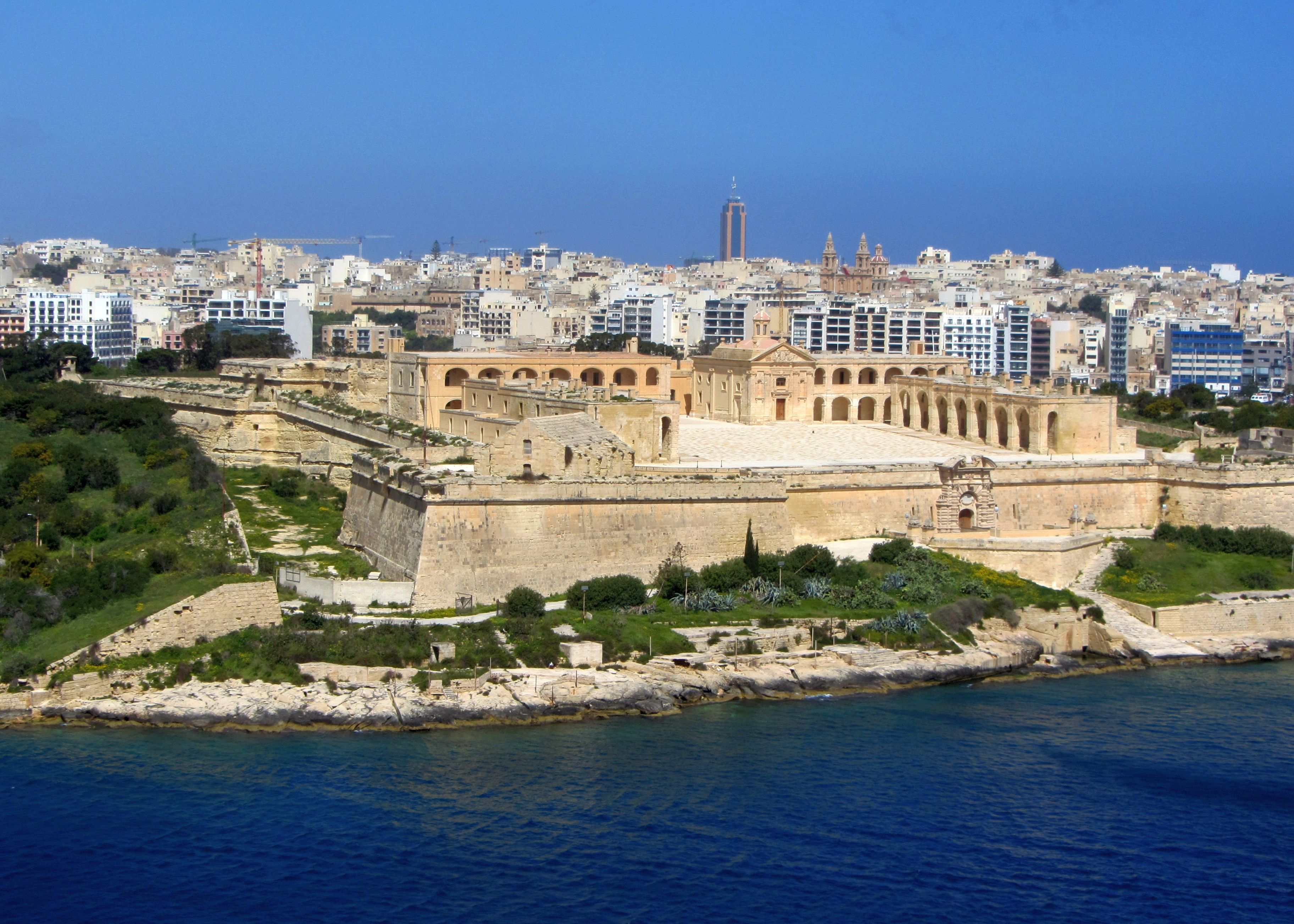 Fort Manoel, view from Valletta